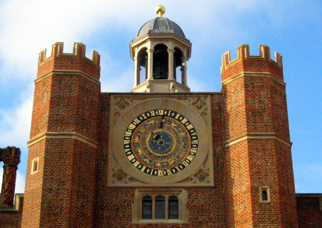 Astronomical clock, Hampton Court Palace. The astronomical clock overlooking the Clock Court is 500years old and extremely rare. It dates to the time of Henry VIII and was restored in 2007. See also 1101618